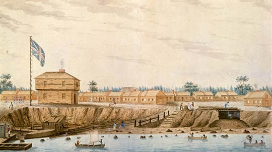 Fort York, Toronto, Canada. Stretton's watercolour depicts the garrison at the mouth of Garrison Creek, with several Mississaugas in the foreground. The garrison at this time was a collection of small wood buildings and a blockhouse. In 1793, John Graves Simcoe founded Fort York on the site of today's fort, on the west side of modern Bathurst Street. In around 1798-1800, most of the garrison (depicted here) moved to the east side of modern Bathurst. The current fort was built on the original Simcoe site between 1813 and 1815 after the 1813 attacks on Toronto.